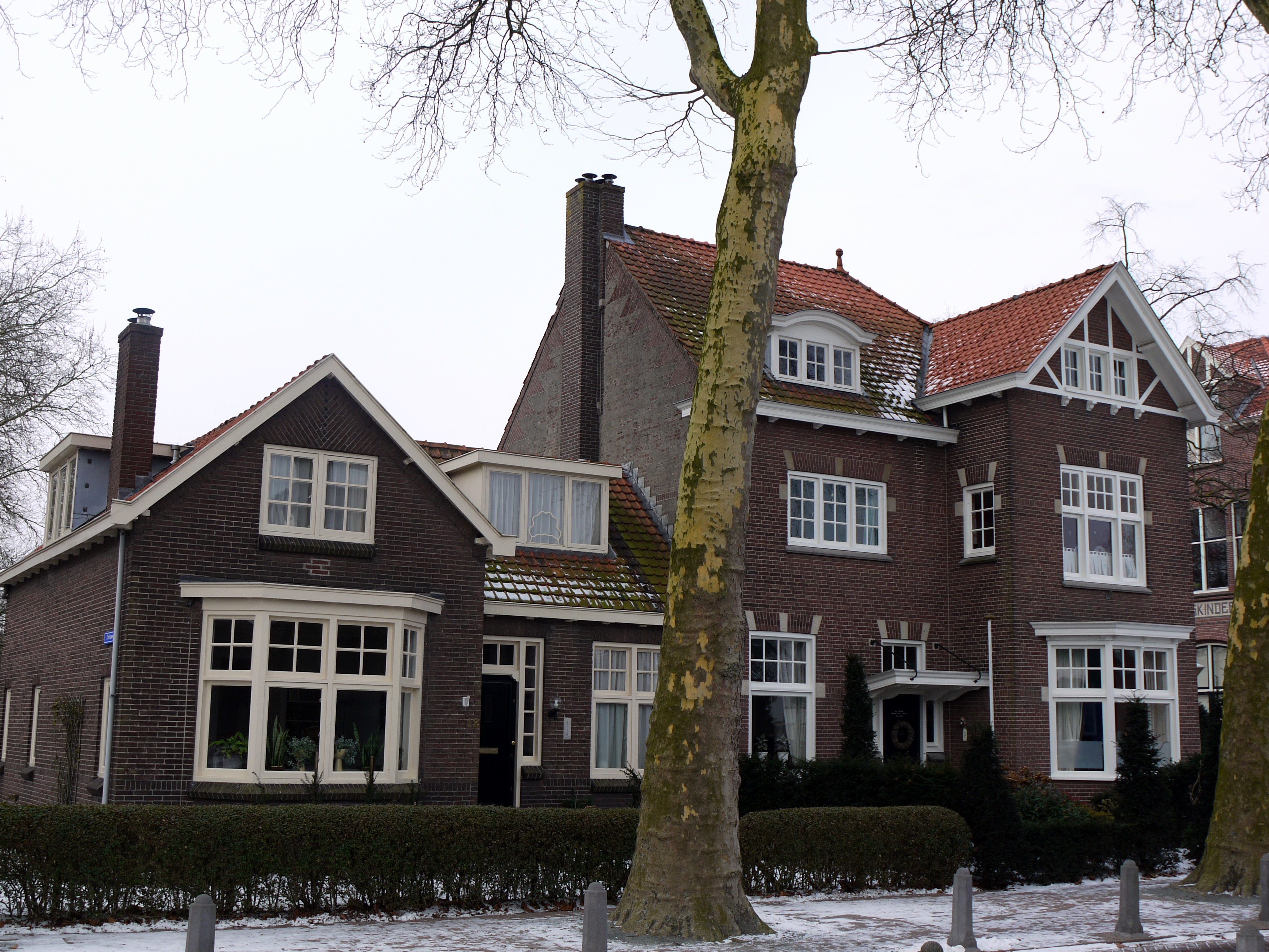 Two houses at Prins Hendriklaan 11-12, Nieuwegein (Vreeswijk). This complex used to be the headmaster's house of the nearby school for bargees. Its national-monument number is 526812.